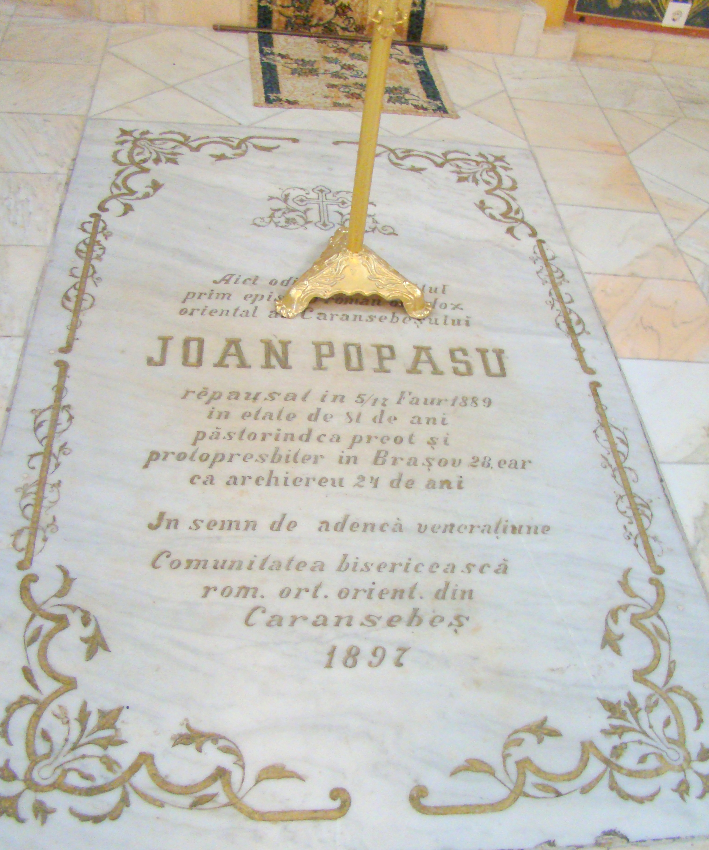 Saint John the Baptist's church in Caransebeș, Caraș-Severin county, Romania